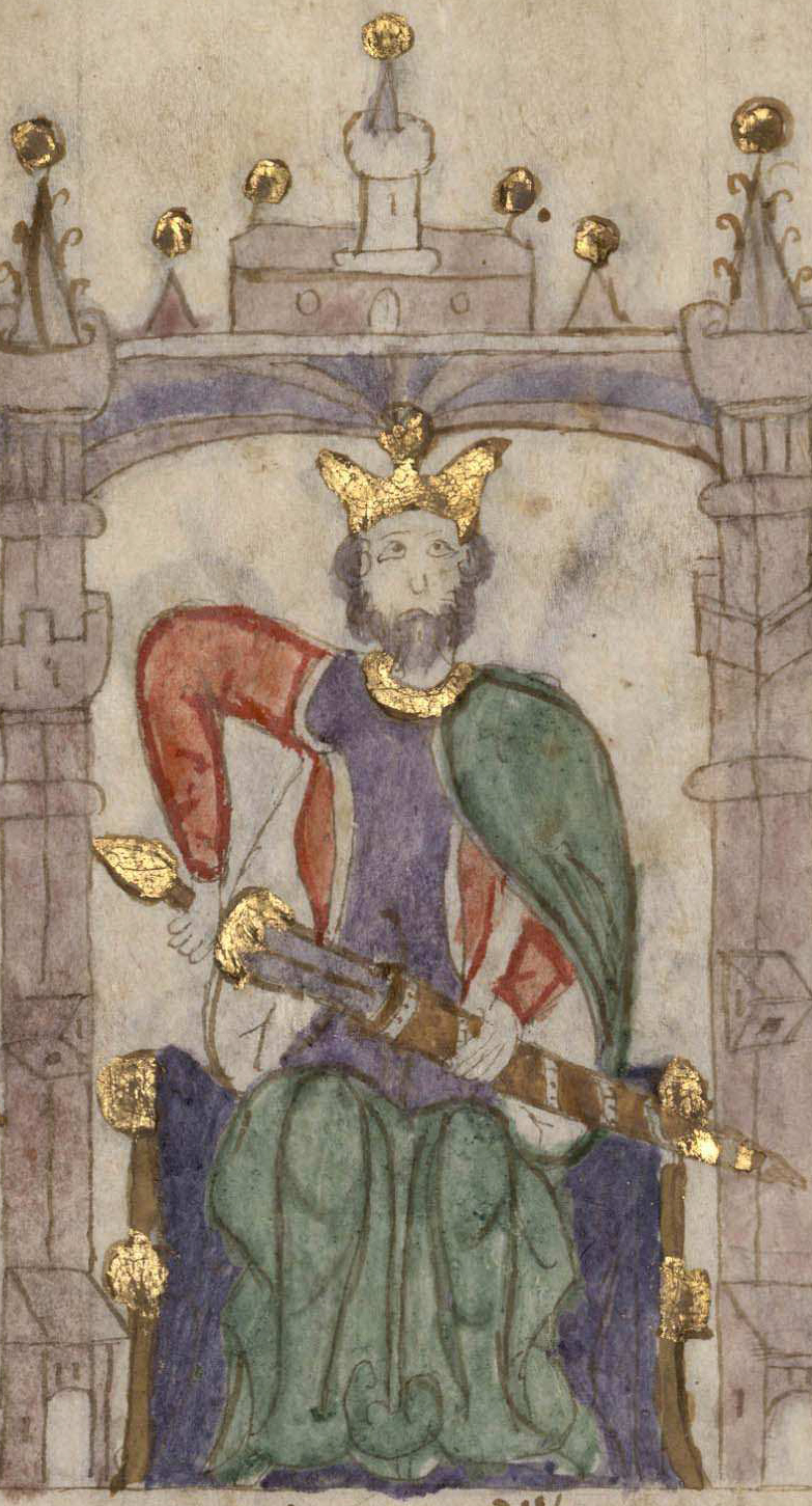 Sancho II of Leon and Castile